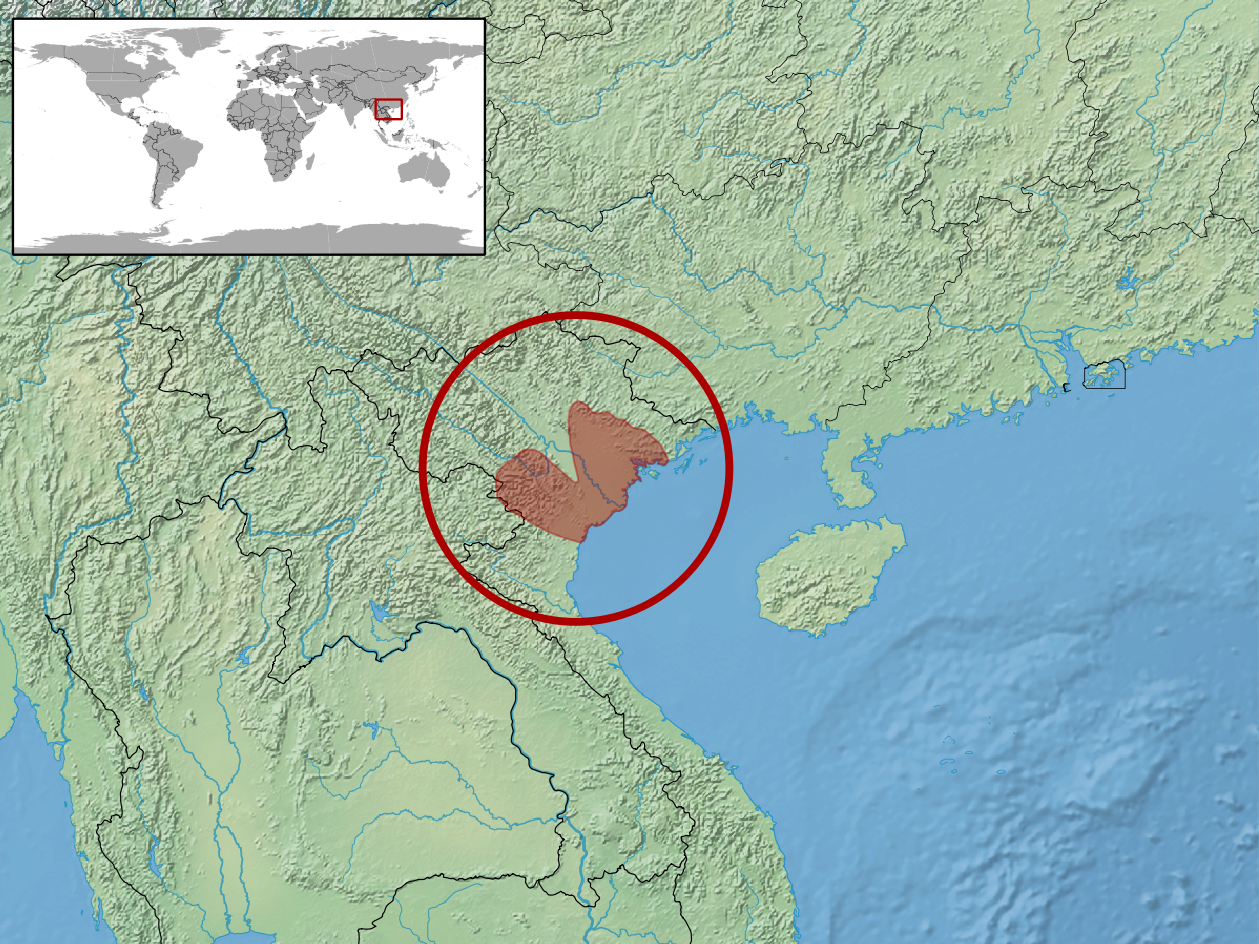 geographic distribution of Sphenomorphus tritaeniatus